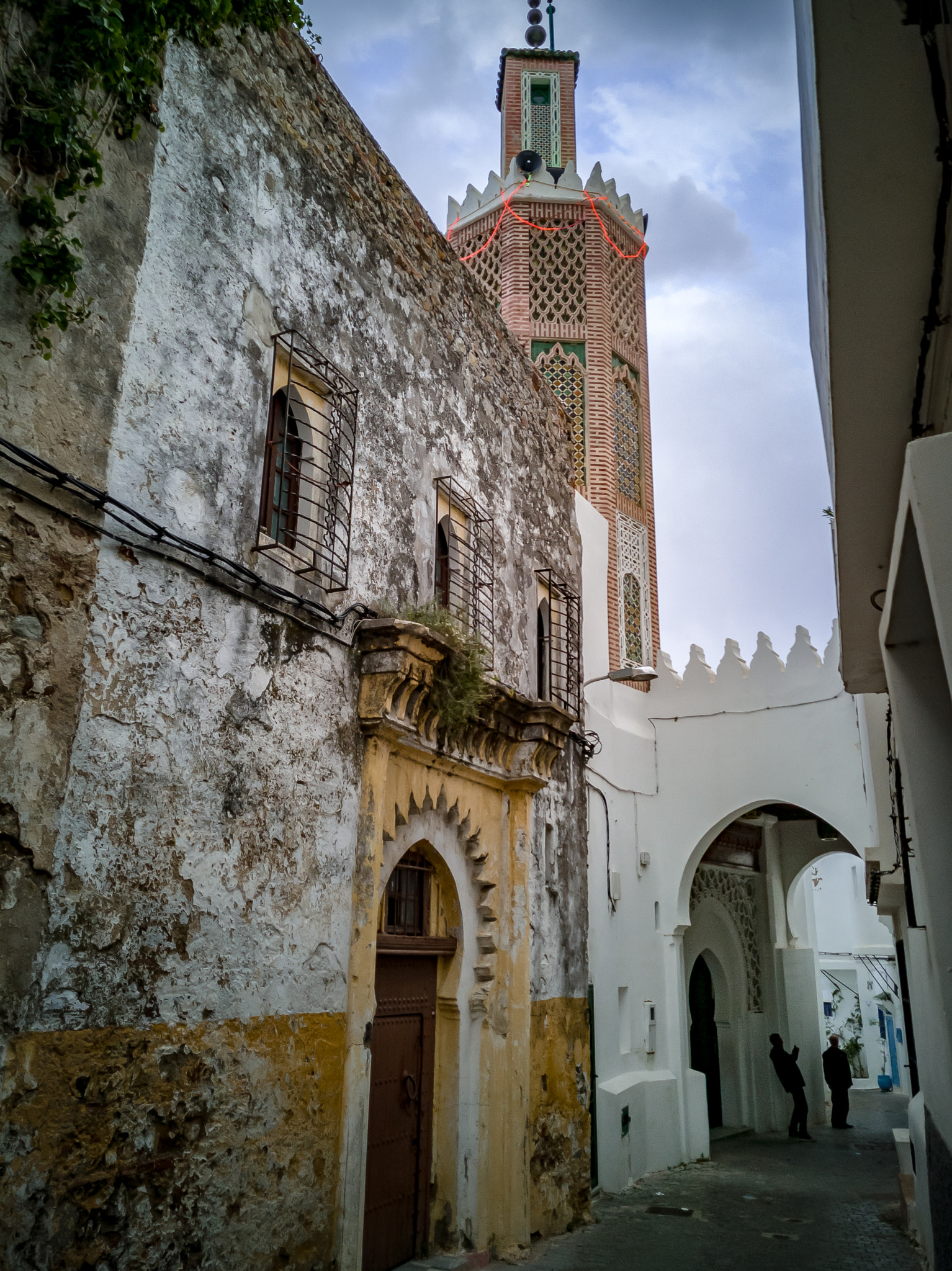 500px provided description: Kasbah [#city ,#street ,#chapel ,#church ,#architecture ,#cityscape ,#building ,#arch ,#old town ,#cathedral ,#bell tower]